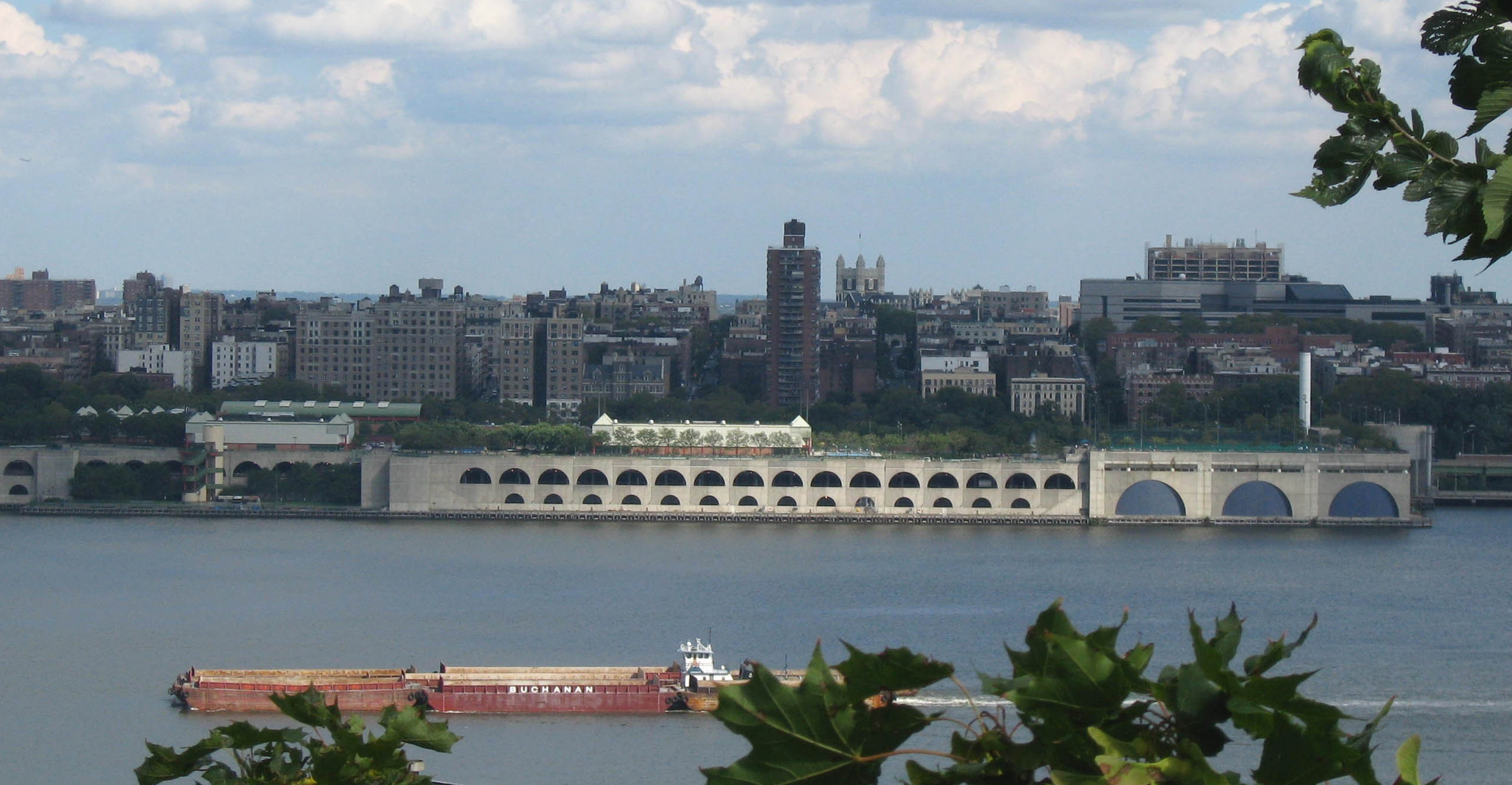 Looking east from Rappers Row in Gutenberg, New Jersey across Hudson River at Riverbank State Park and North River sewage plant in Manhattan on a clouding up early afternoon.